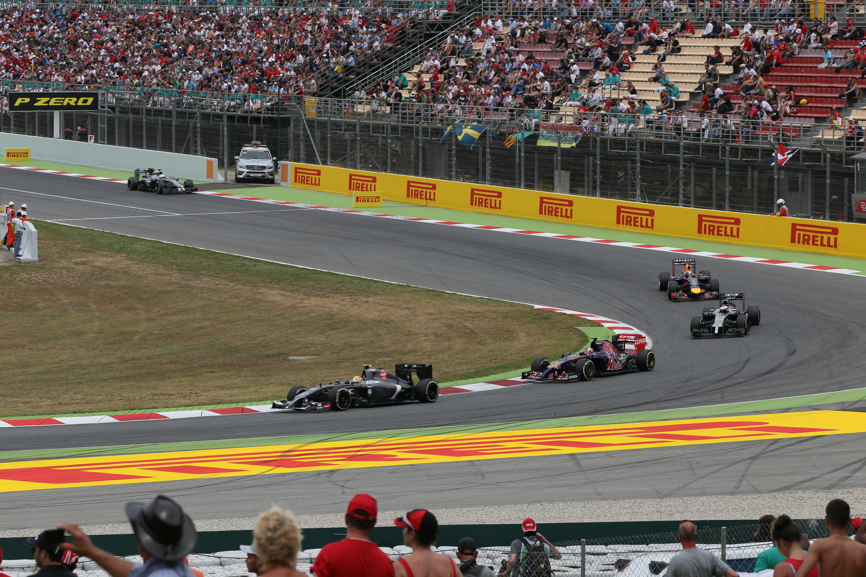 Turn 1